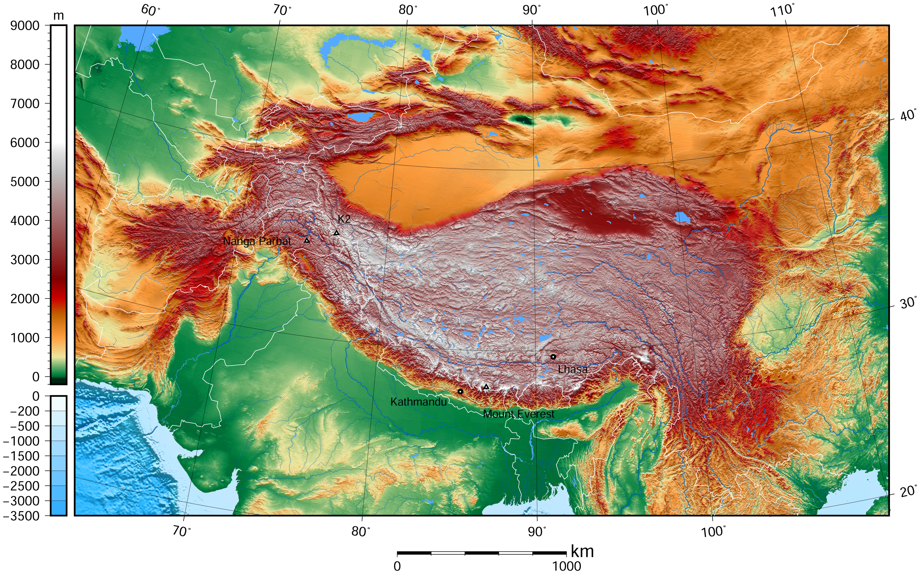 Tibet and surrounding areas topographic map. The map was created using the Generic Mapping Tools, GMT, version 5.1.2.